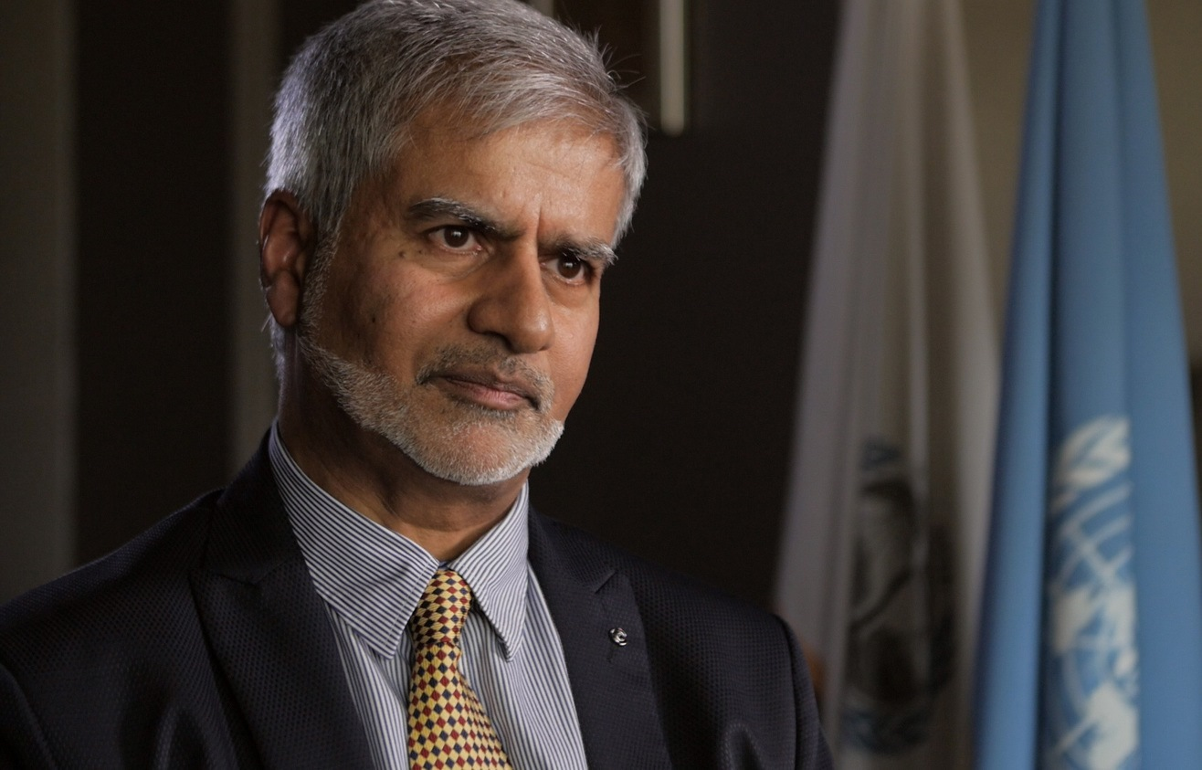 Lyal S. Sunga, Former Investigator, United Nations Security Council